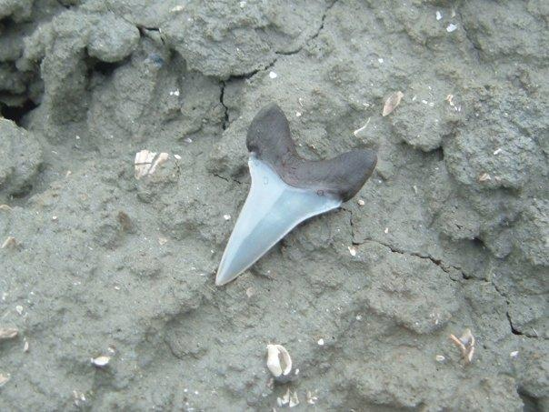 Shark fossil tooth